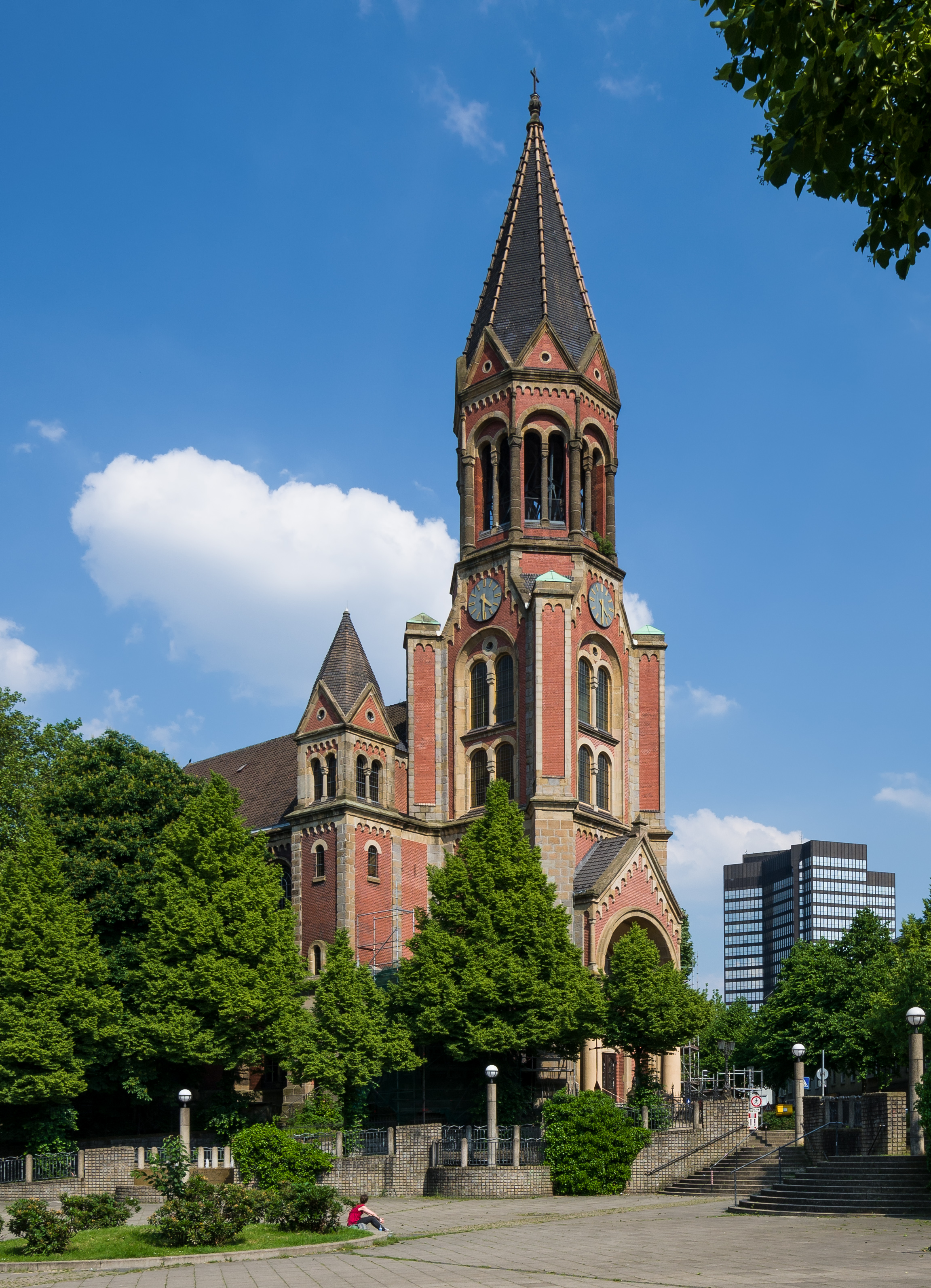 Protestant Church of the Cross (Kreuzeskirche)